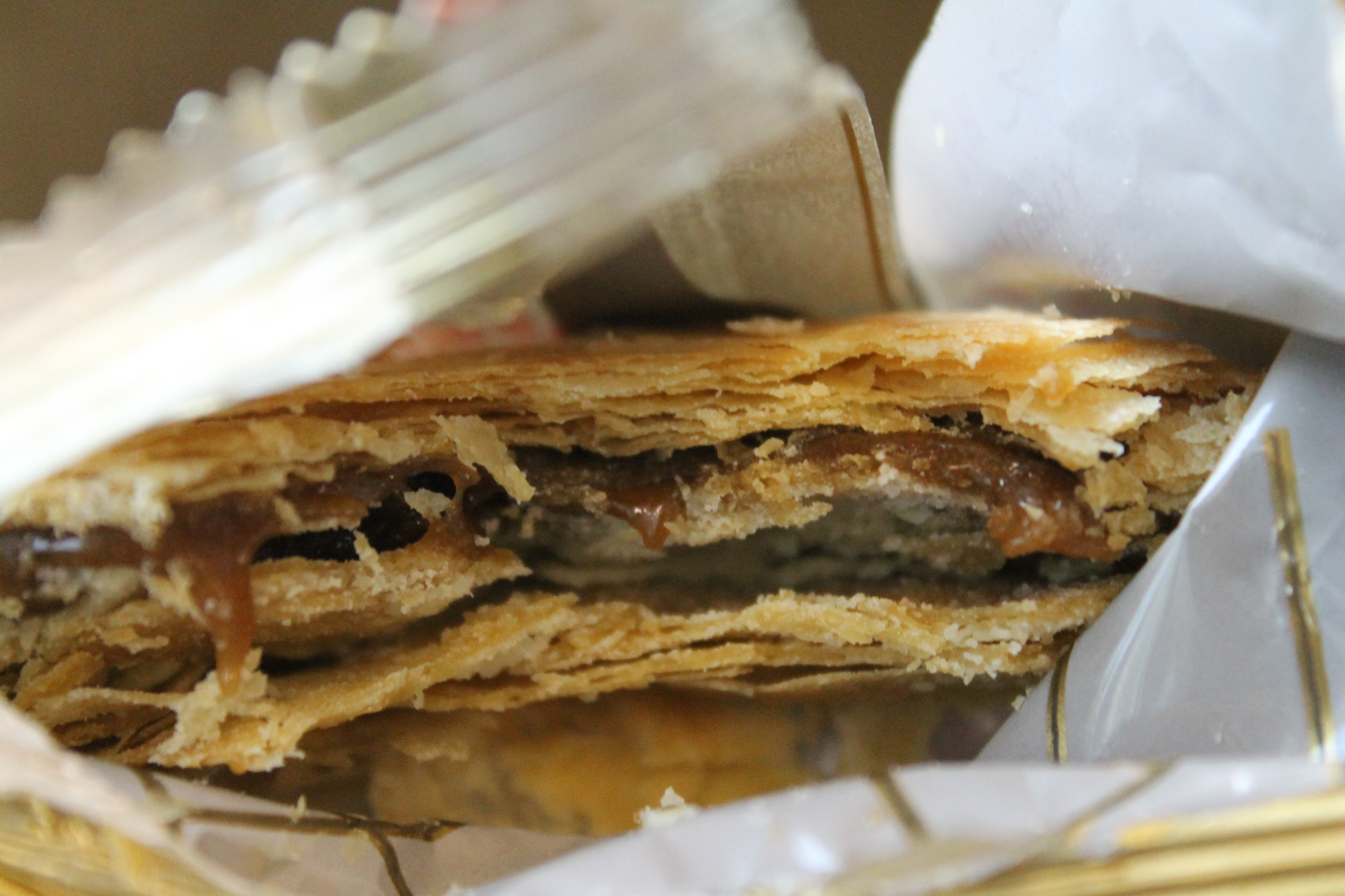 Delicious brown sugar sun cake a Taichung specialty.